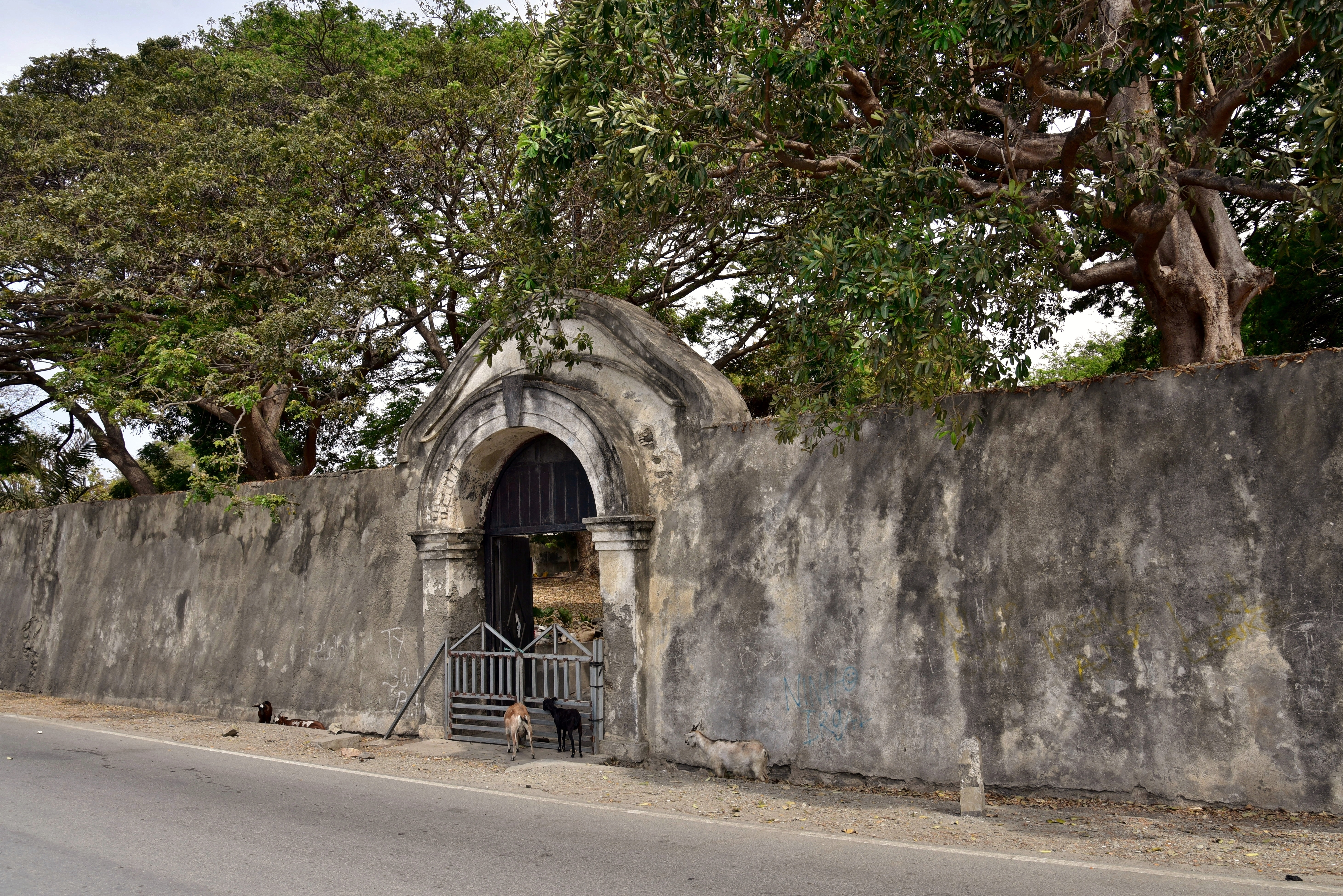 View of the fort in the village of Maubara, East Timor